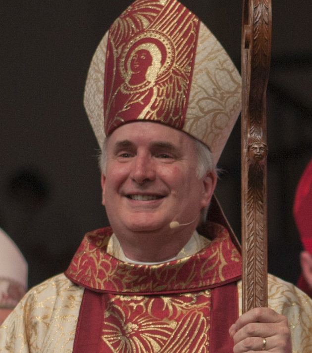 Bishop Gregory O. Brewer (second left)